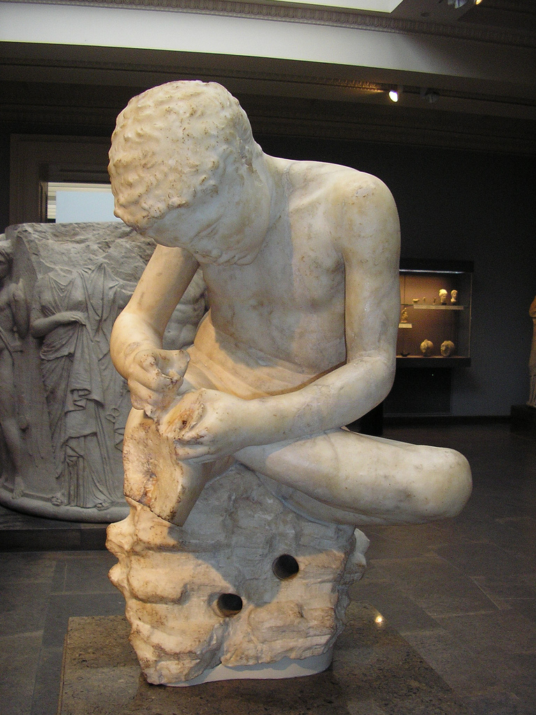 "Boy with Thorn" or "Spinario" (British Museum)